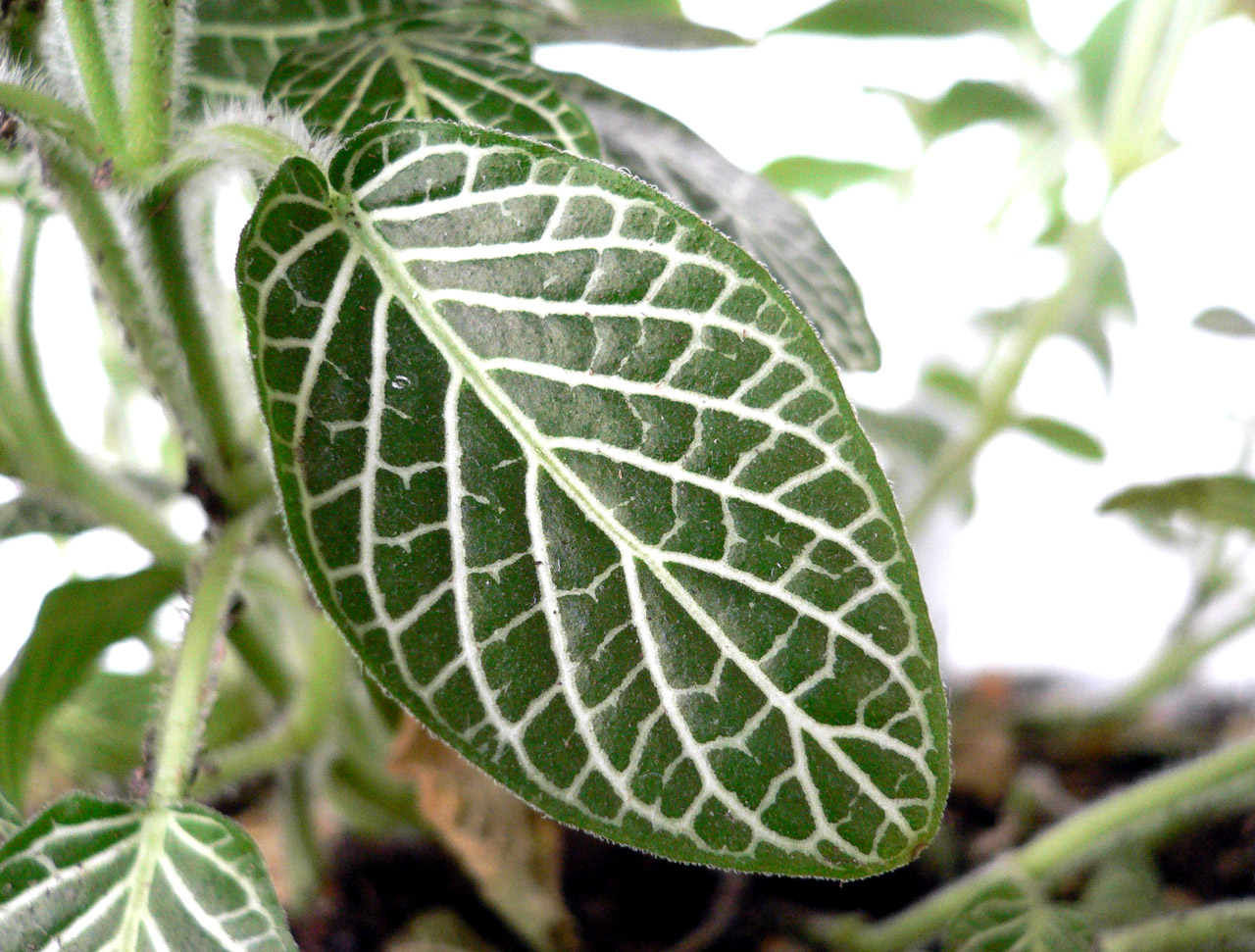 Leaf of a variety of Acanthaceae, also known as "Nerve Plant", Fittonia verschaffeltii. Photograph by Nathan Beach